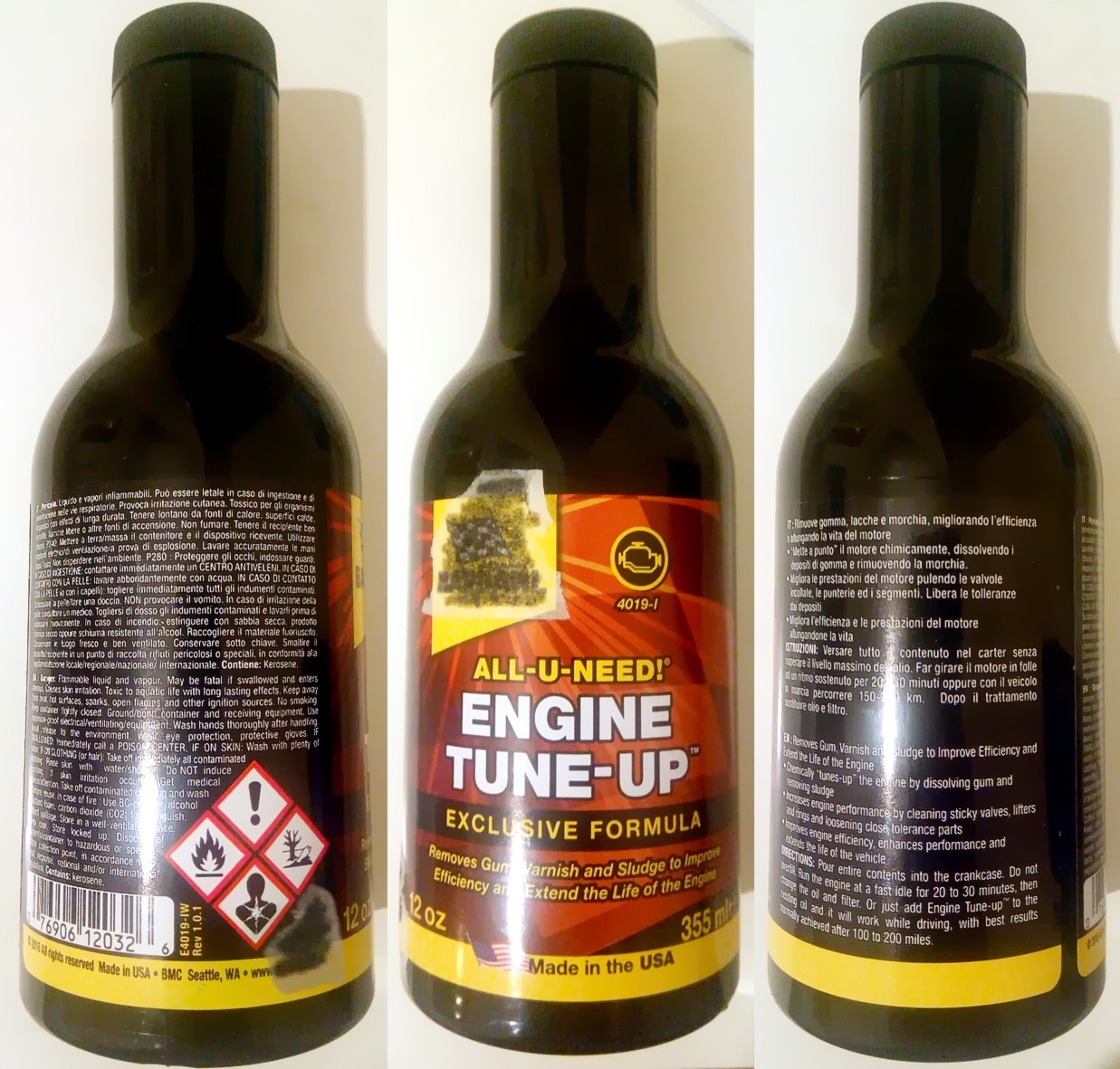 Product for flush engine, to be blended together with engine lubricating oil